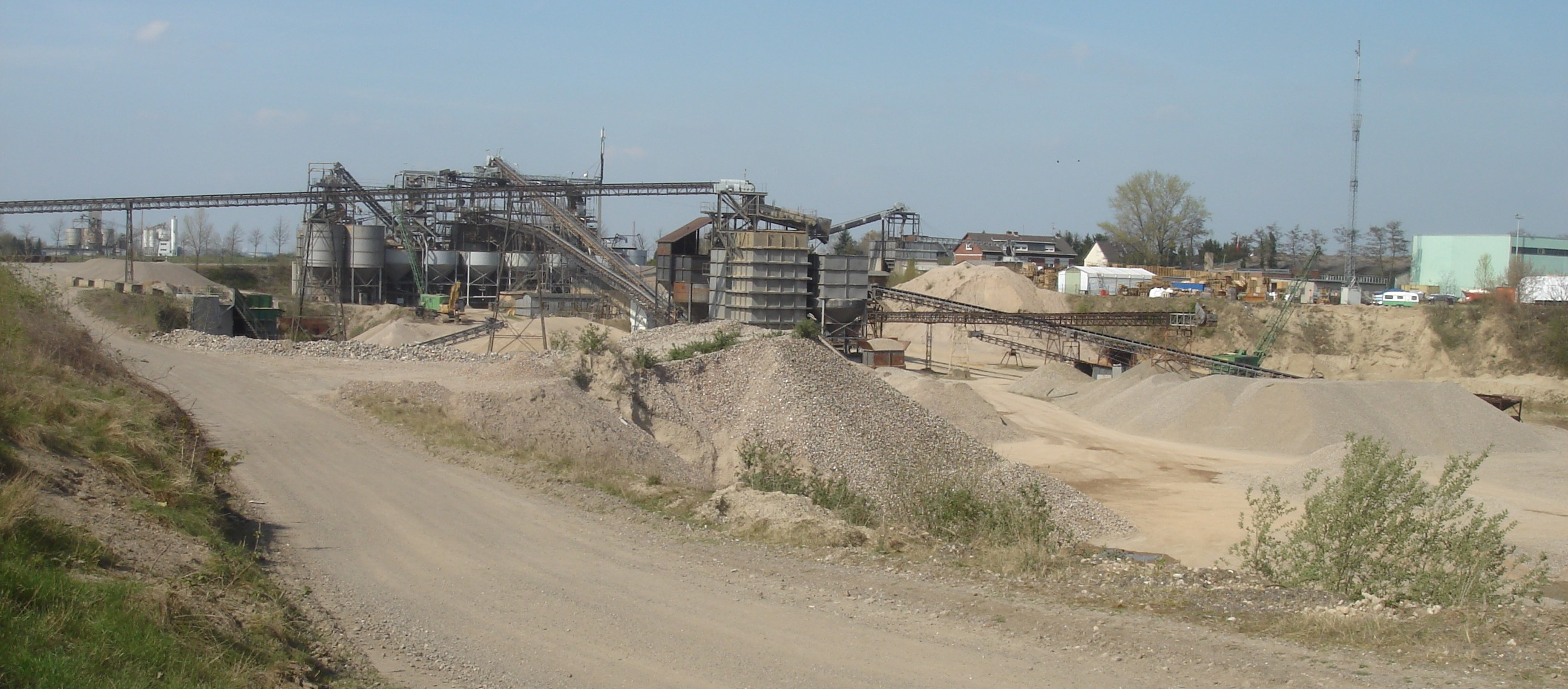 Horn gravel works in Bornheim-Hersel, Germany.